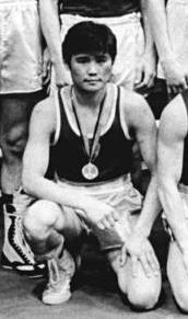 The Mongolian boxer Nergüin Enkhbat after winning the lightweight section of the XII Chemistry cup boxing tournament in Halle (GDR).